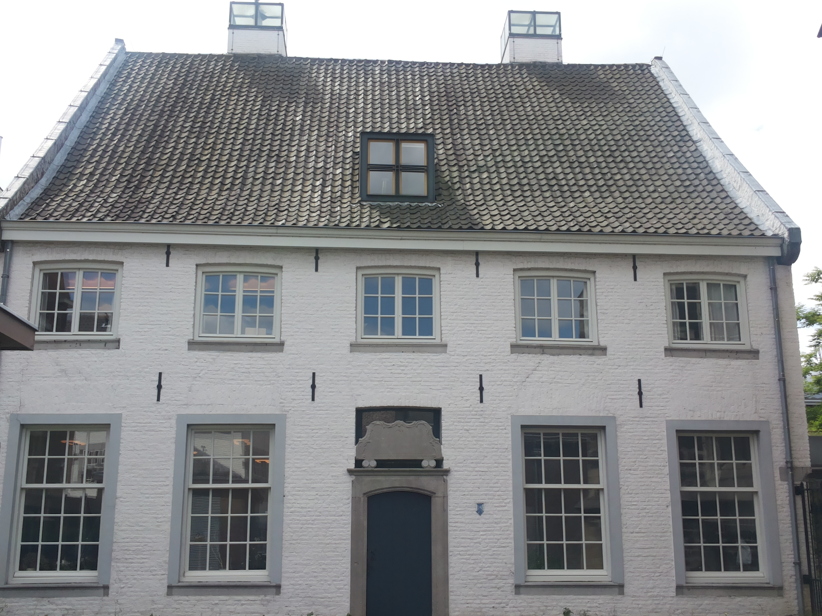 Birth house of Jac. P. Thijsse, Maastricht, Nederland